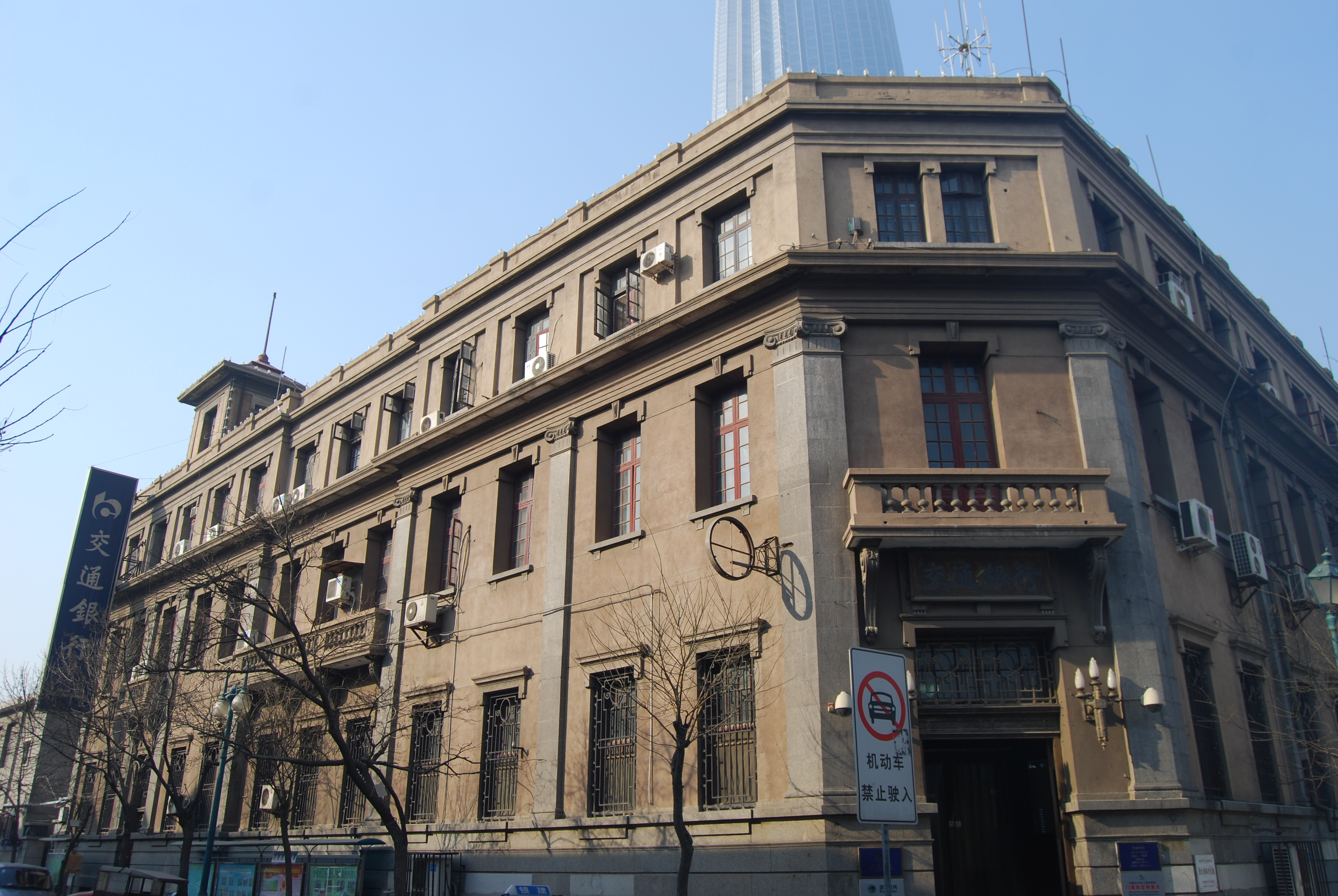 Former Continental Bank in Harbin Dao No. 70, Heping District, Tianjin